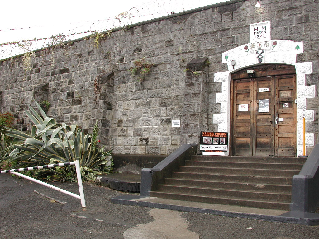 Outside wall and entrance of historic Napier Prison.